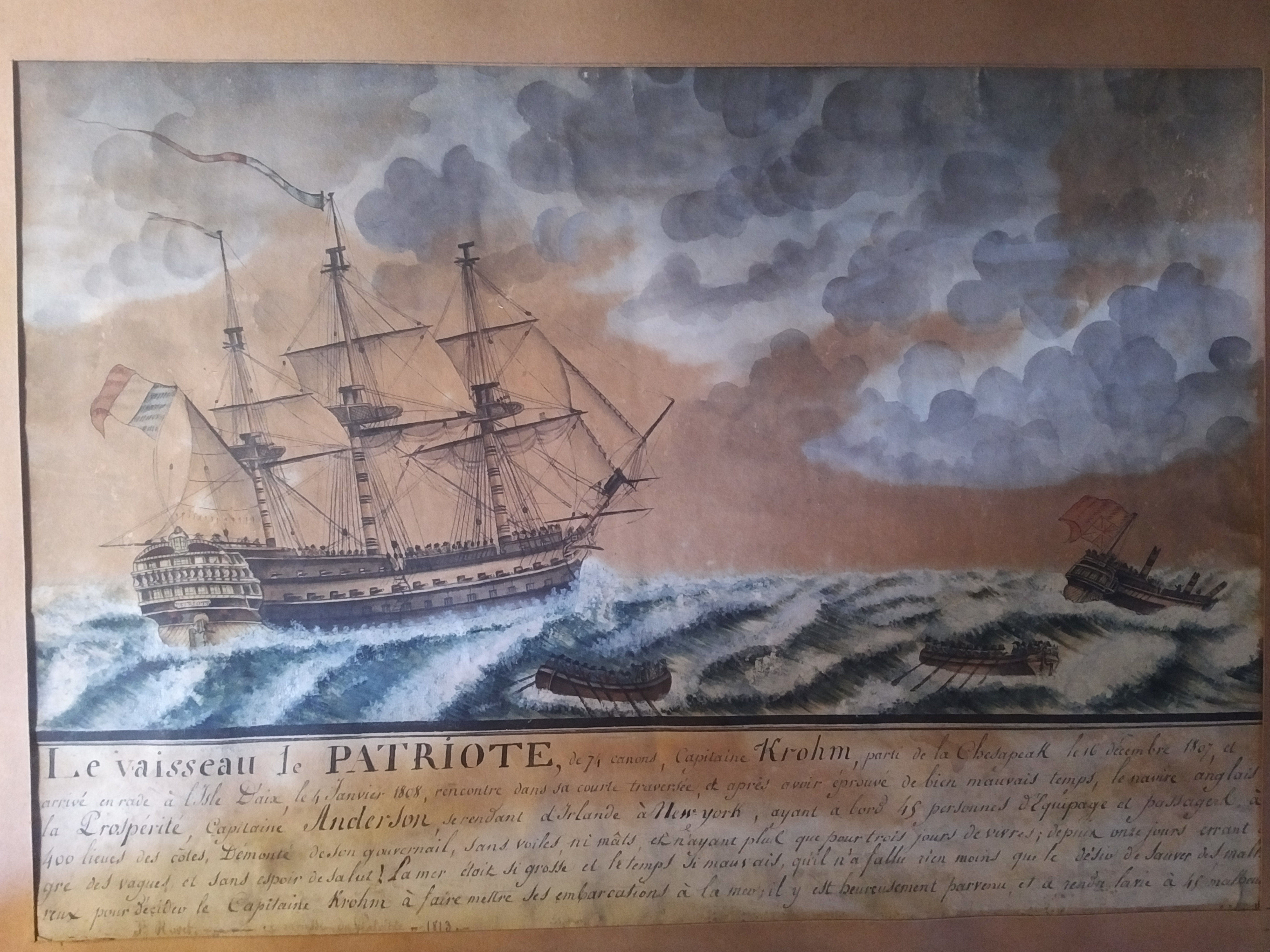 French ship "Le Patriote" (Patriot) rescuing English ship "La Prospérité" (Prosperity) in December 1807.